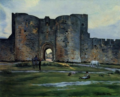 Oil painting reproduction of Frédéric Bazille.